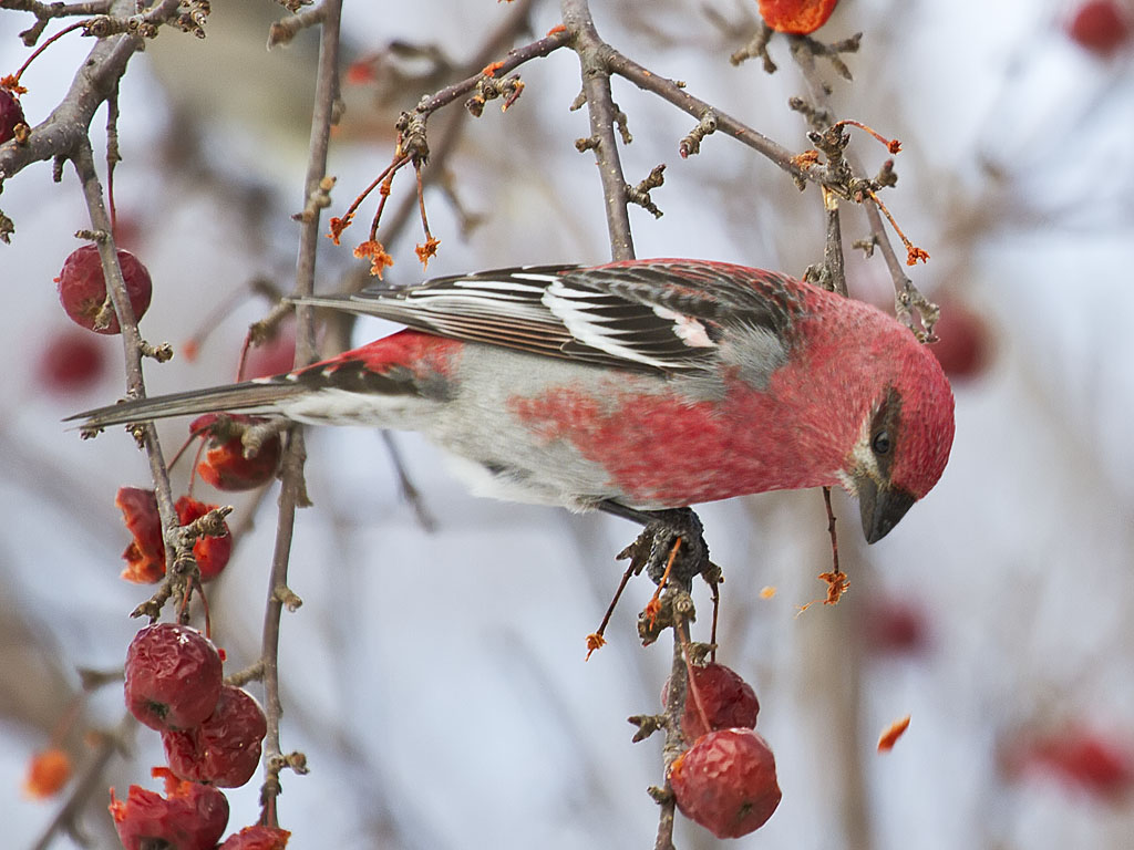 Adult male Pinicola enucleator feeding upon crabapple fruit. Chippewa Co., Michigan, USA.